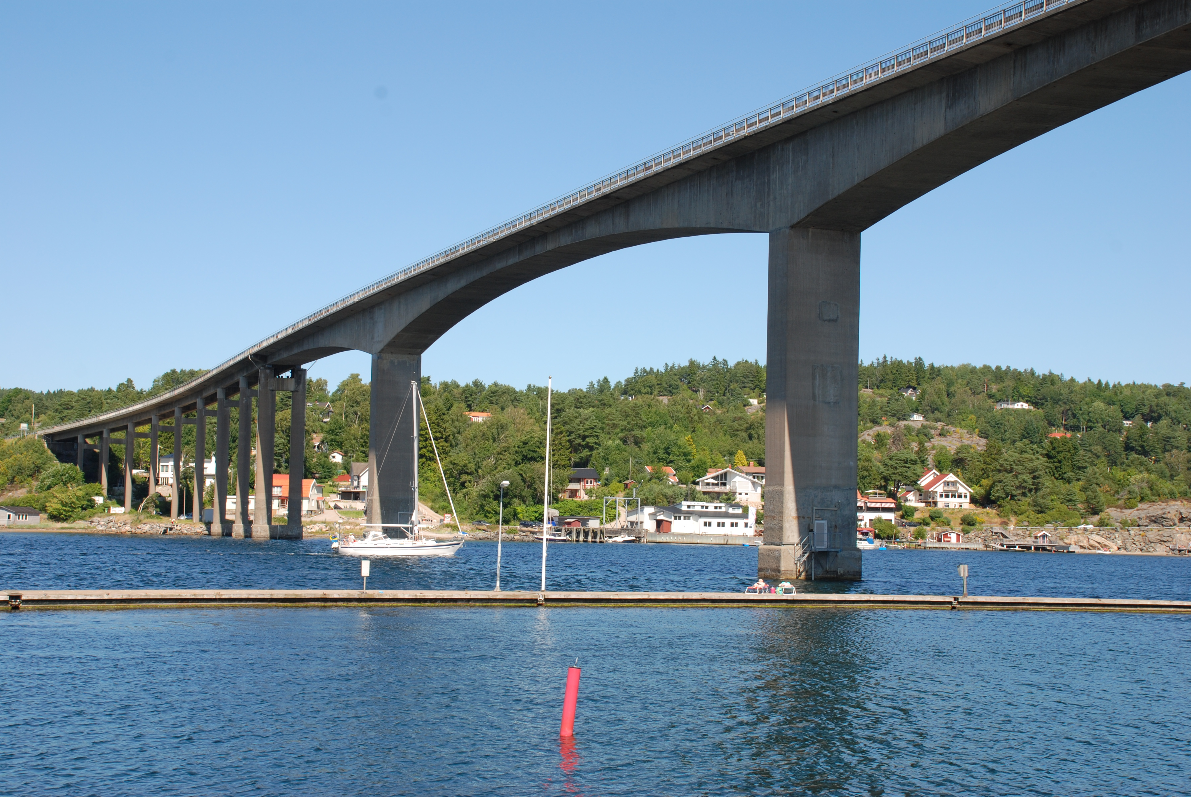 The bridge Nötesundsbron along road 160, crossing the border between Orust and Uddevalla municipalities.